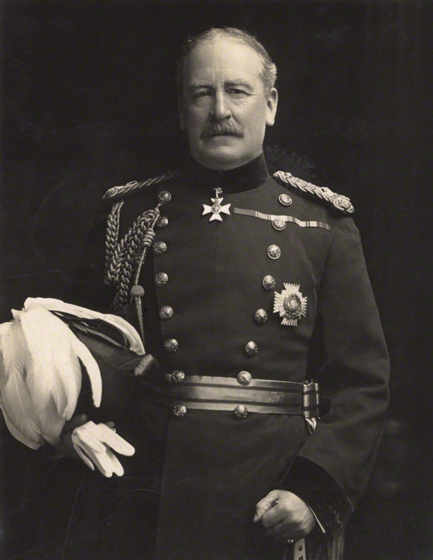 Portrait of Sir Herbert Miles